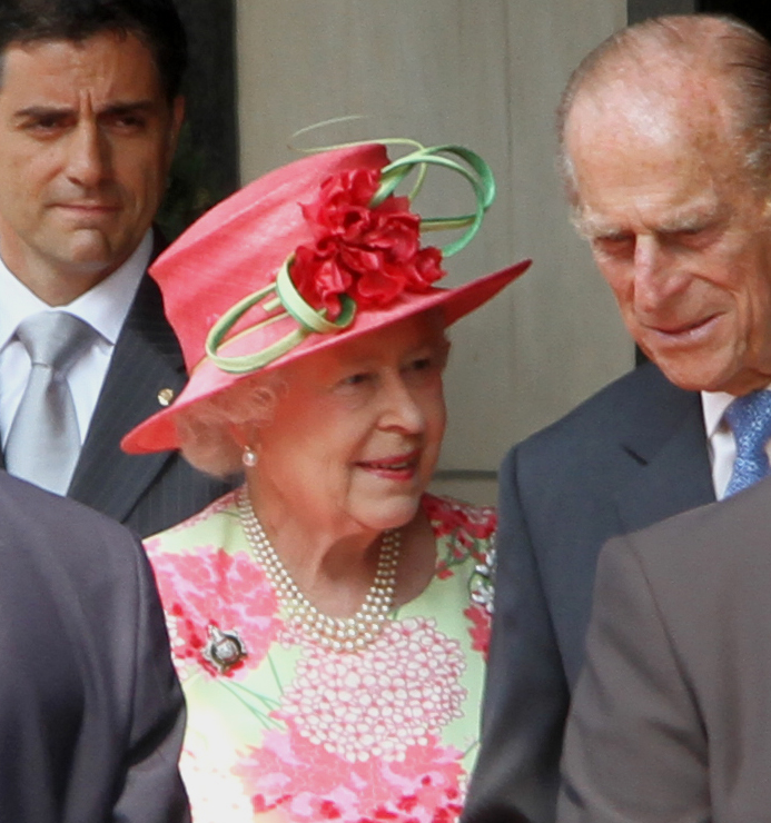 Queen Elizabeth and Prince Phillip, the Duke of Edinburgh leaving Toronto's Royal York Hotel. Toronto, Ontario, Canada.